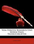 Vom Fürsten Bismarck und seinem Haus by Eugen Wolf.